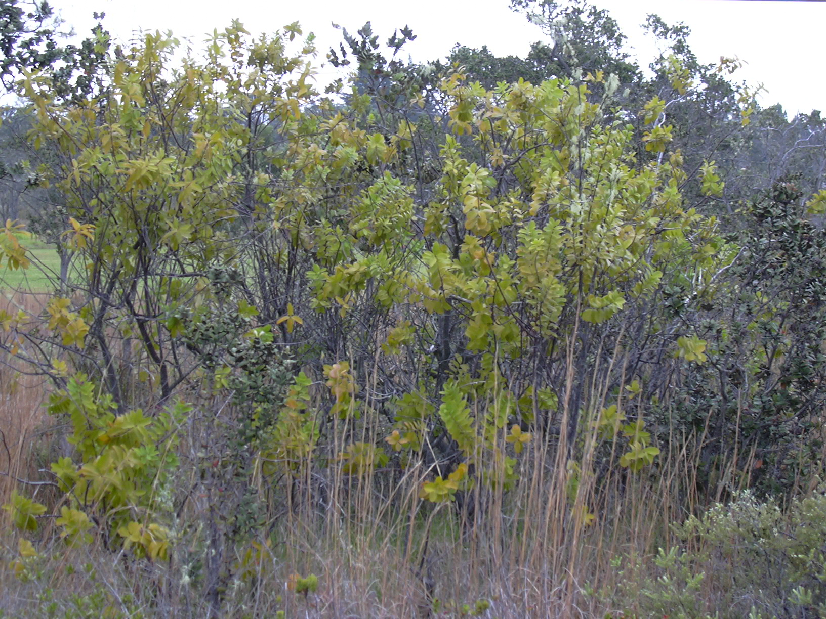 Santalum paniculatum (habit). Location: Hawaii, HAVO